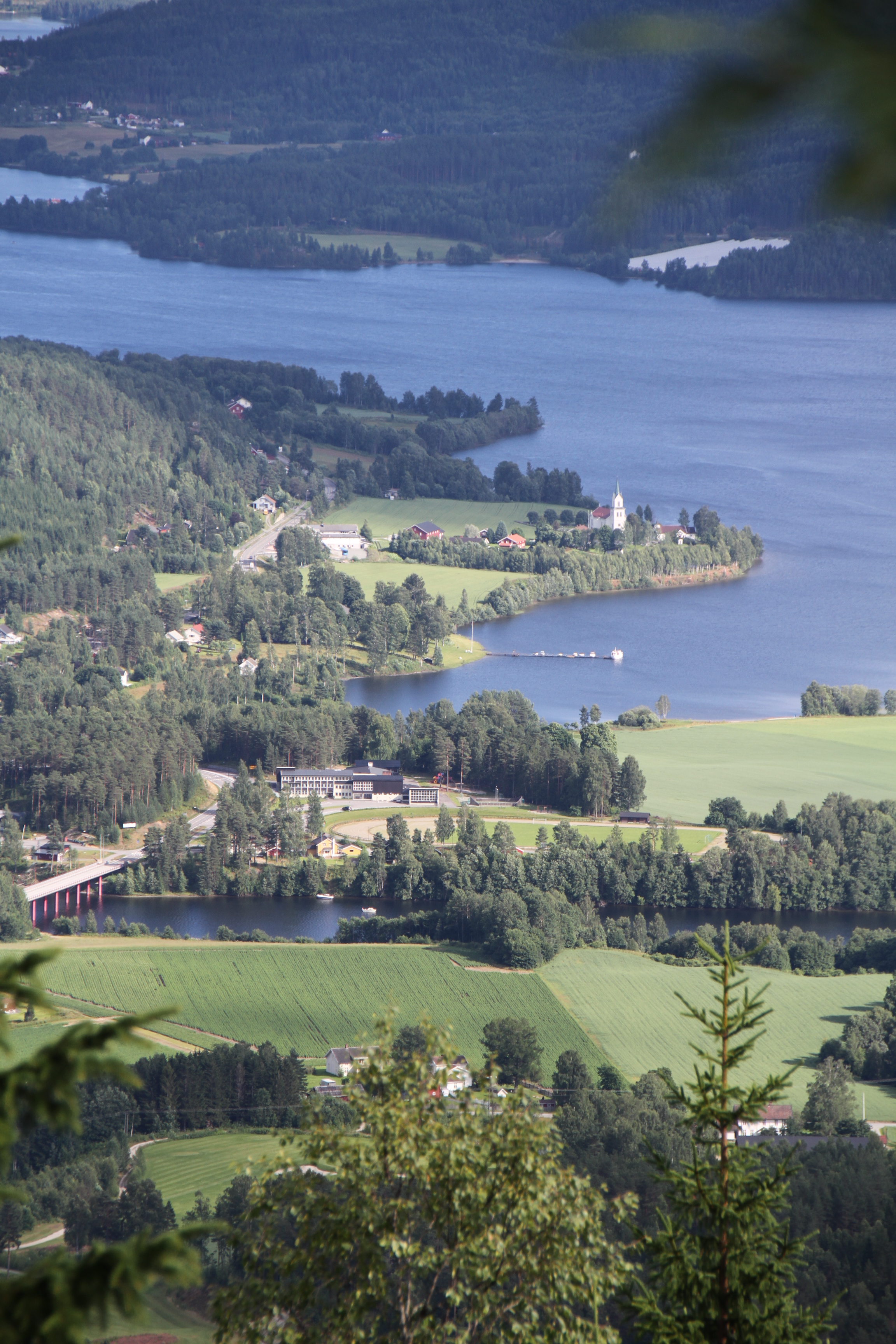 Photo seen from the Norefjell plateau, towards the lake Krøderen. Municipality of Krødsherad, Buskerud county, Norway.